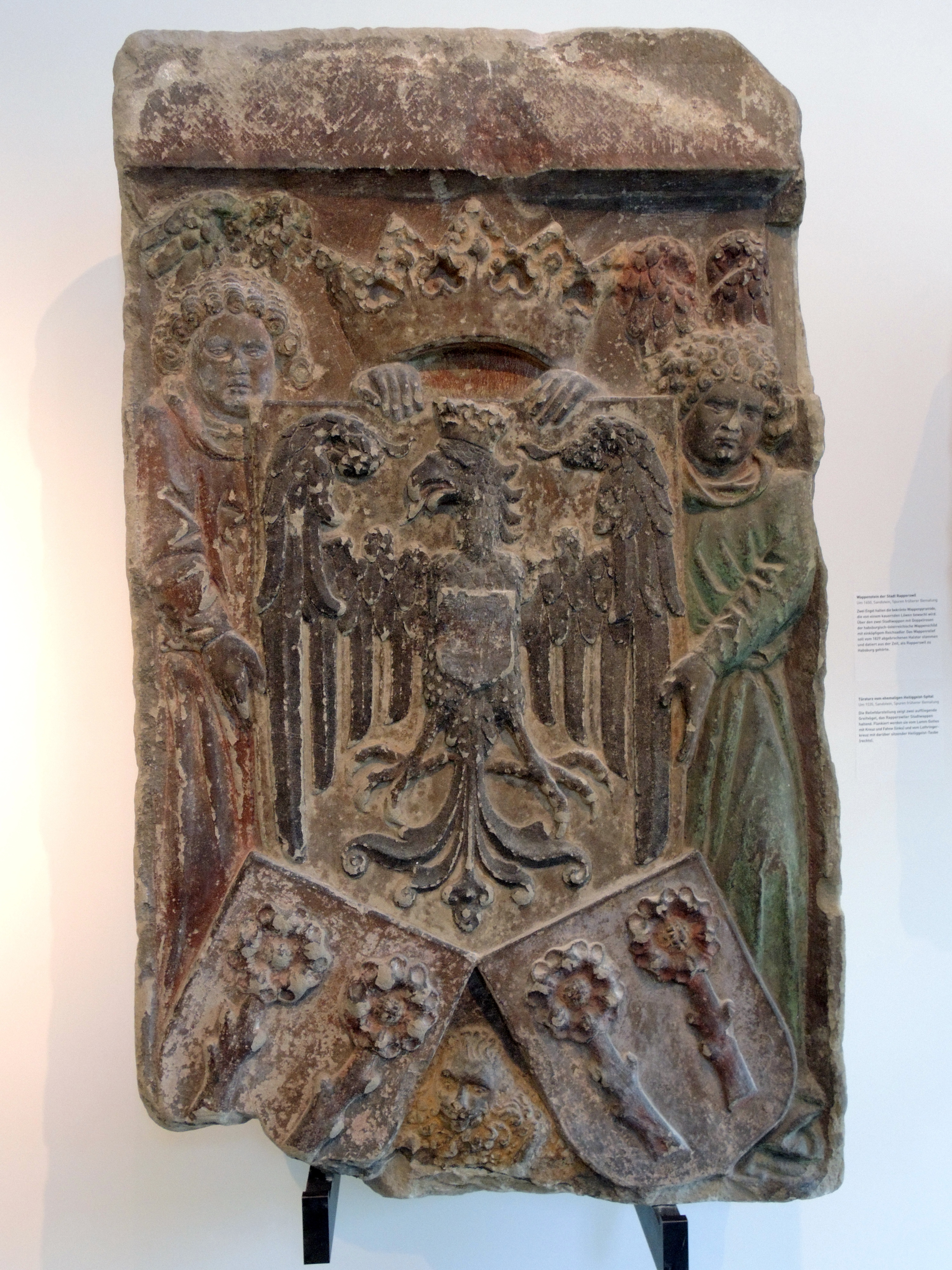 Collection of the Stadtmuseum) in Rapperswil (Switzerland)